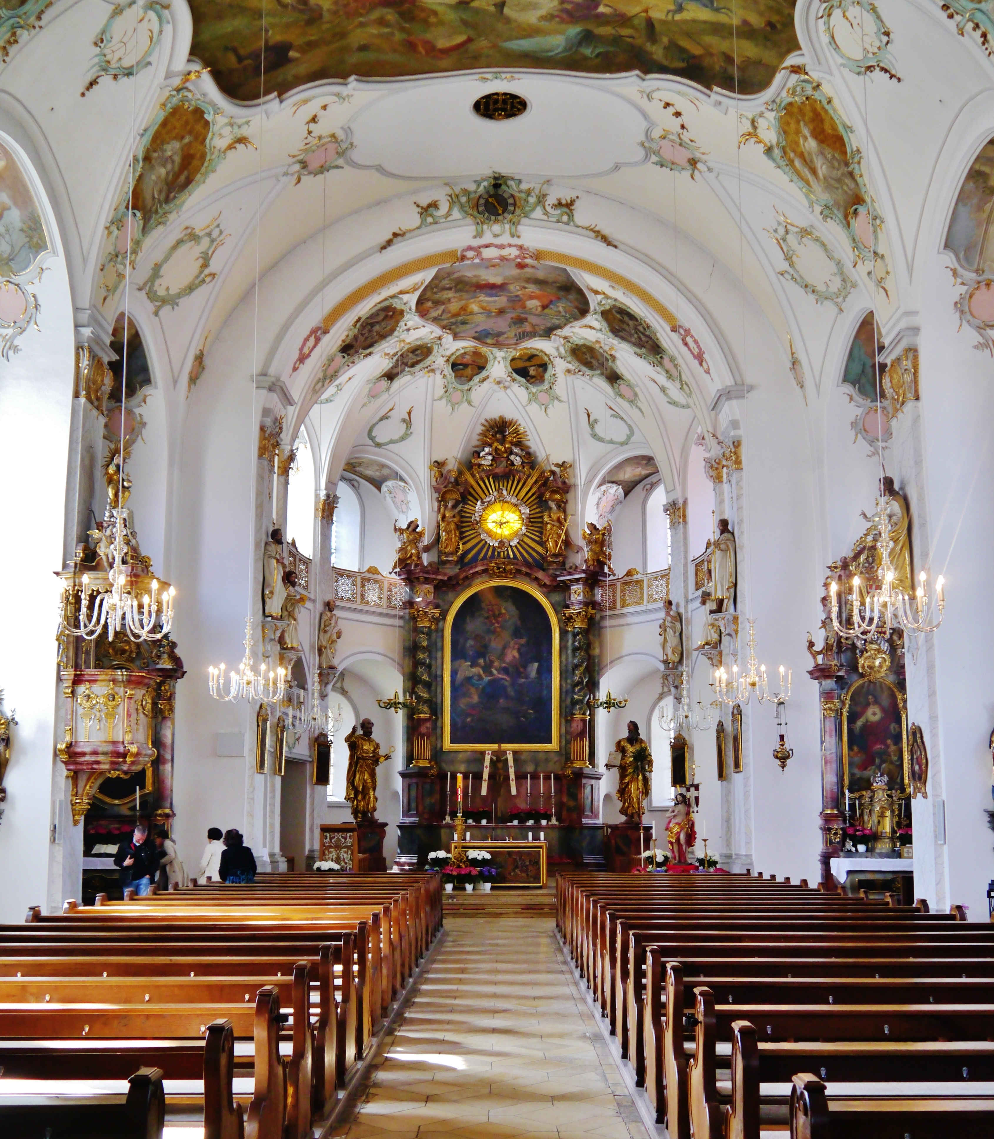 Nave of St. Magdalene, Fürstenfeldbruck, Bavaria, Germany